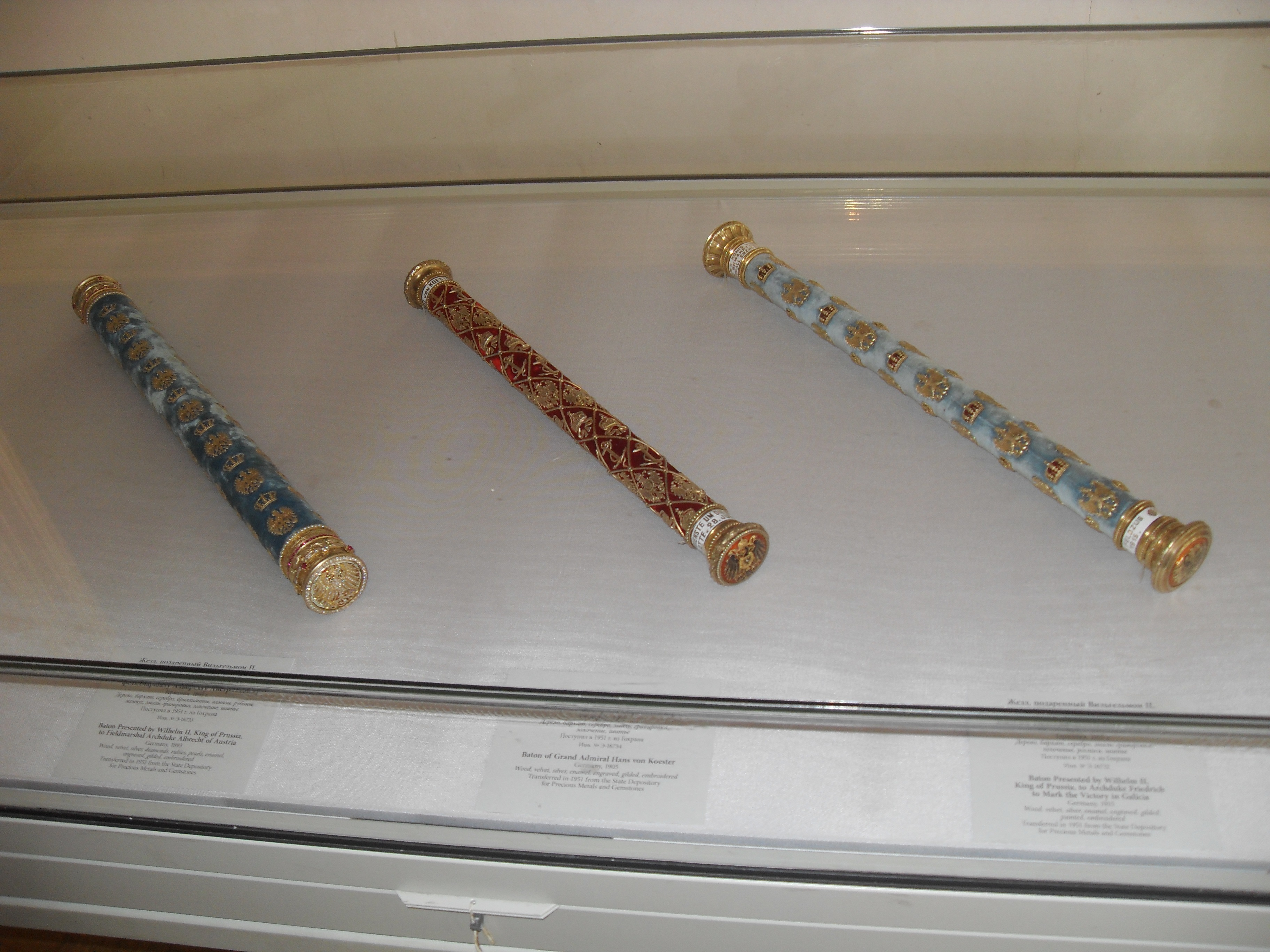 German marshal's batons in the Hermitage Museum.